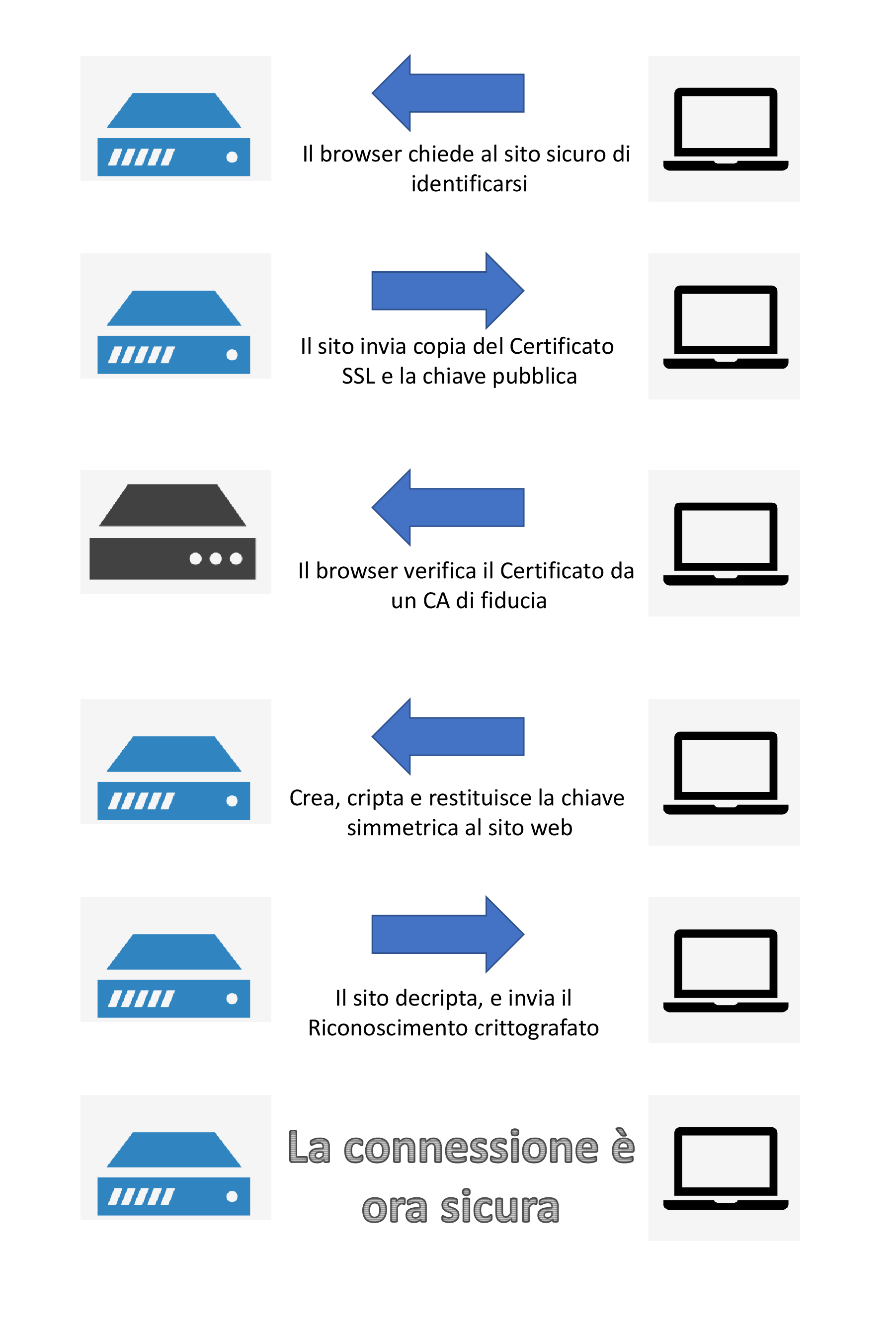 How OCSP work